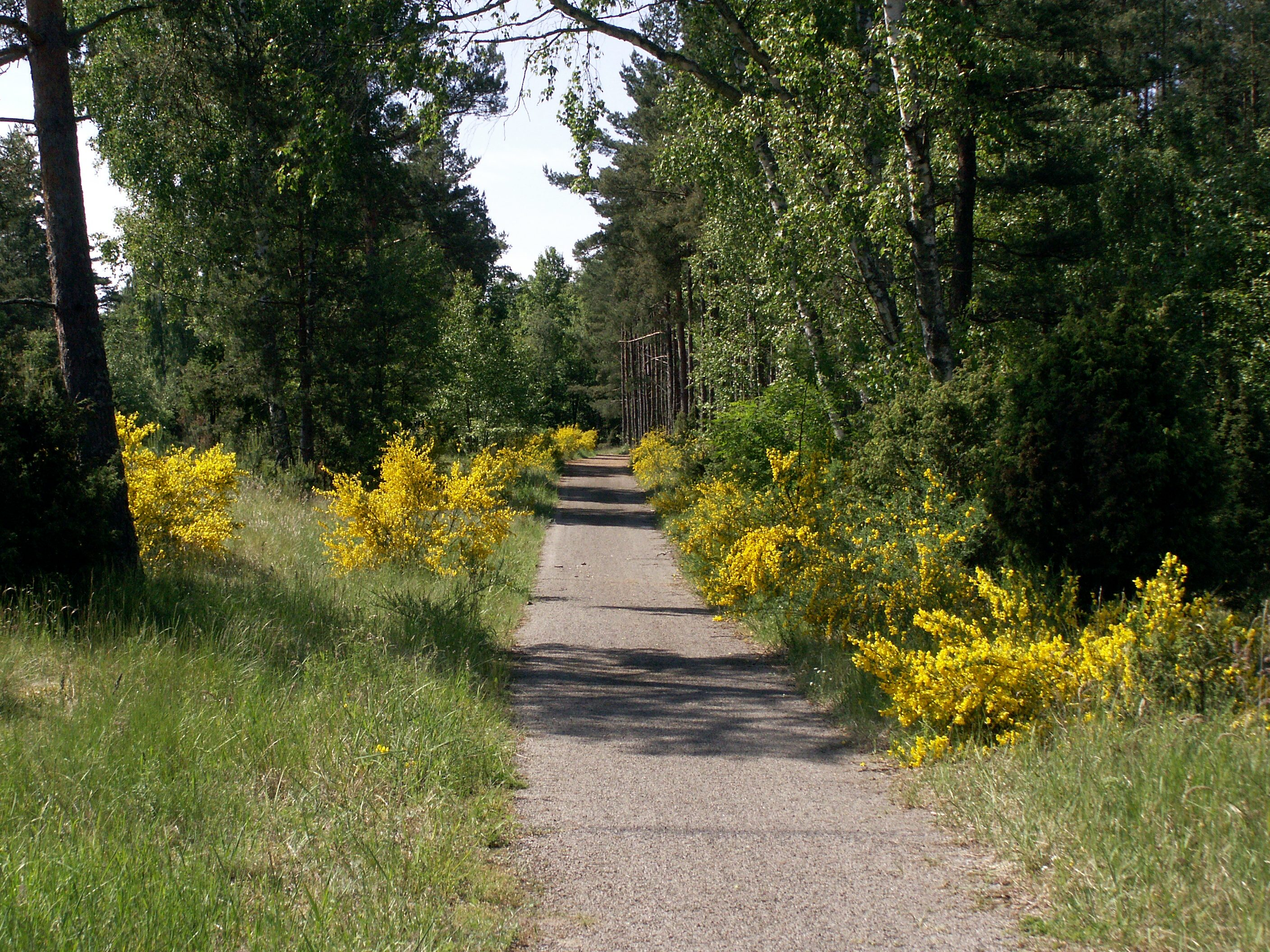 Way of bicycles in Neringa district, Lithuania